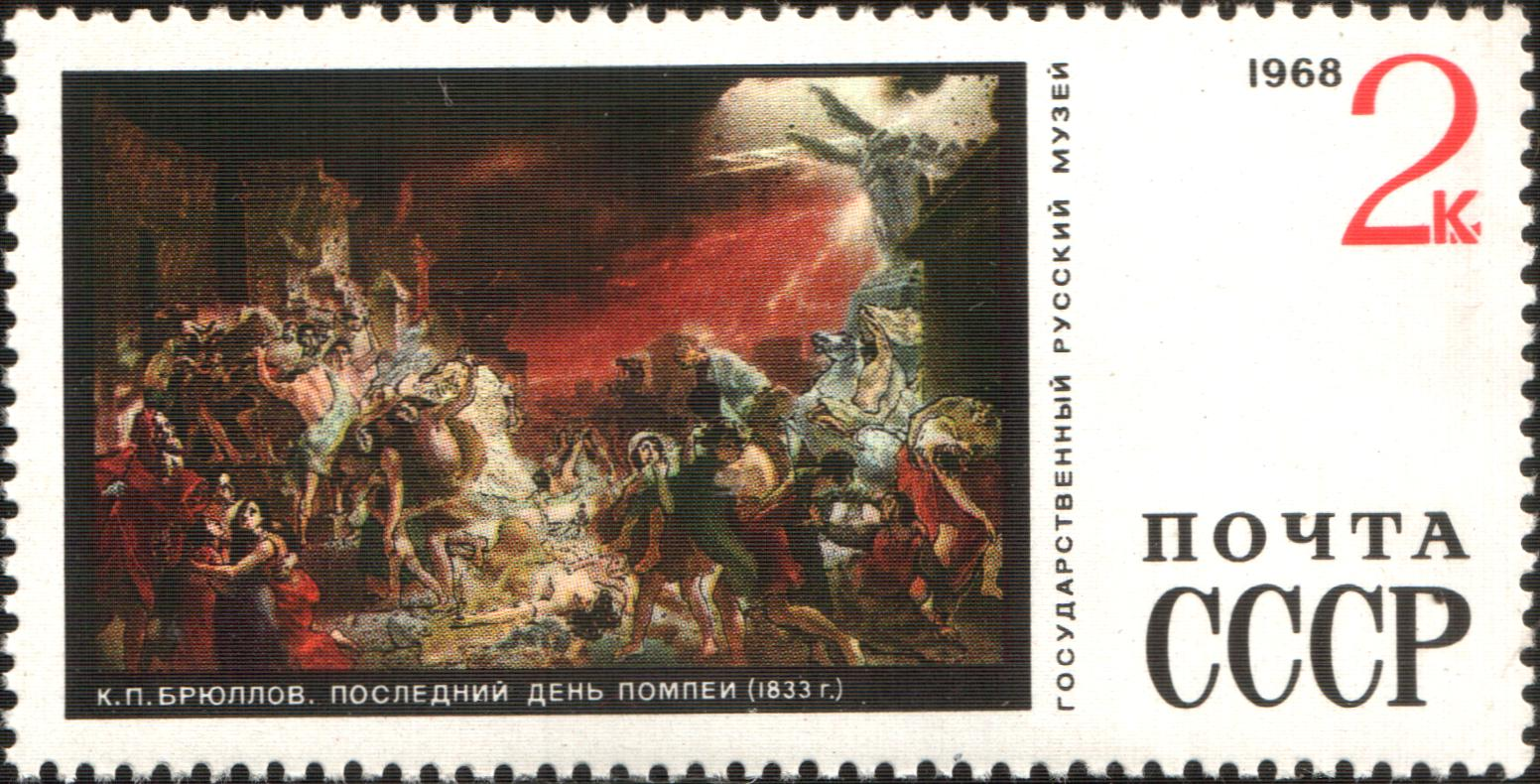 USSR stamp: “The Last Day of Pompeii” (1830–33) by Karl Bryullov (1799—1852). Series: Paintings in the State Russian Museum (Saint Petersburg)